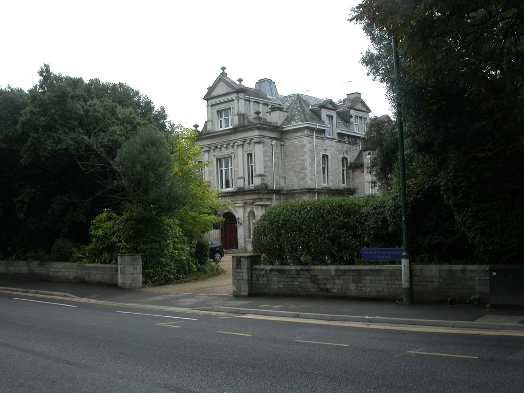 Bournemouth, Royal Victoria Hospital Former hospital on Poole Road, with an 1887 datestone; now converted into apartments.